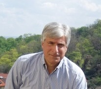 Steve Berry in Prague